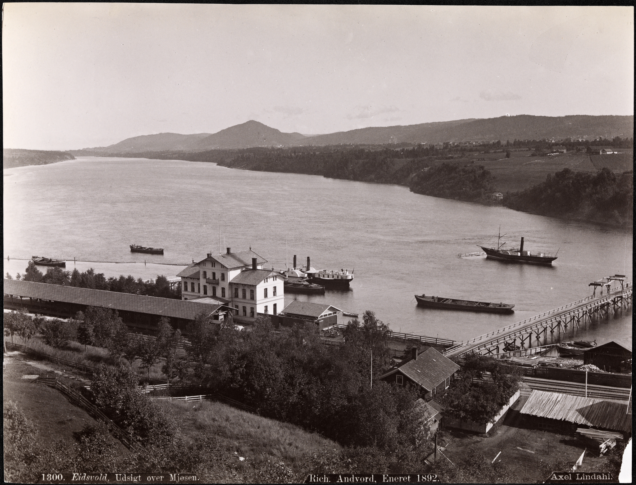 Tittel / Title: 1300. Eidsvold, Udsigt over Mjøsen Dato / Date: ca 1892 Fotograf / Photographer: Axel Lindahl (1841-1906) Sted / Place: Akershus, Eidsvoll Eier / Owner Institution: Nasjonalbiblioteket / National Library of Norway Lenke / Link: Bildesignatur / Image Number: bldsa_AL1300